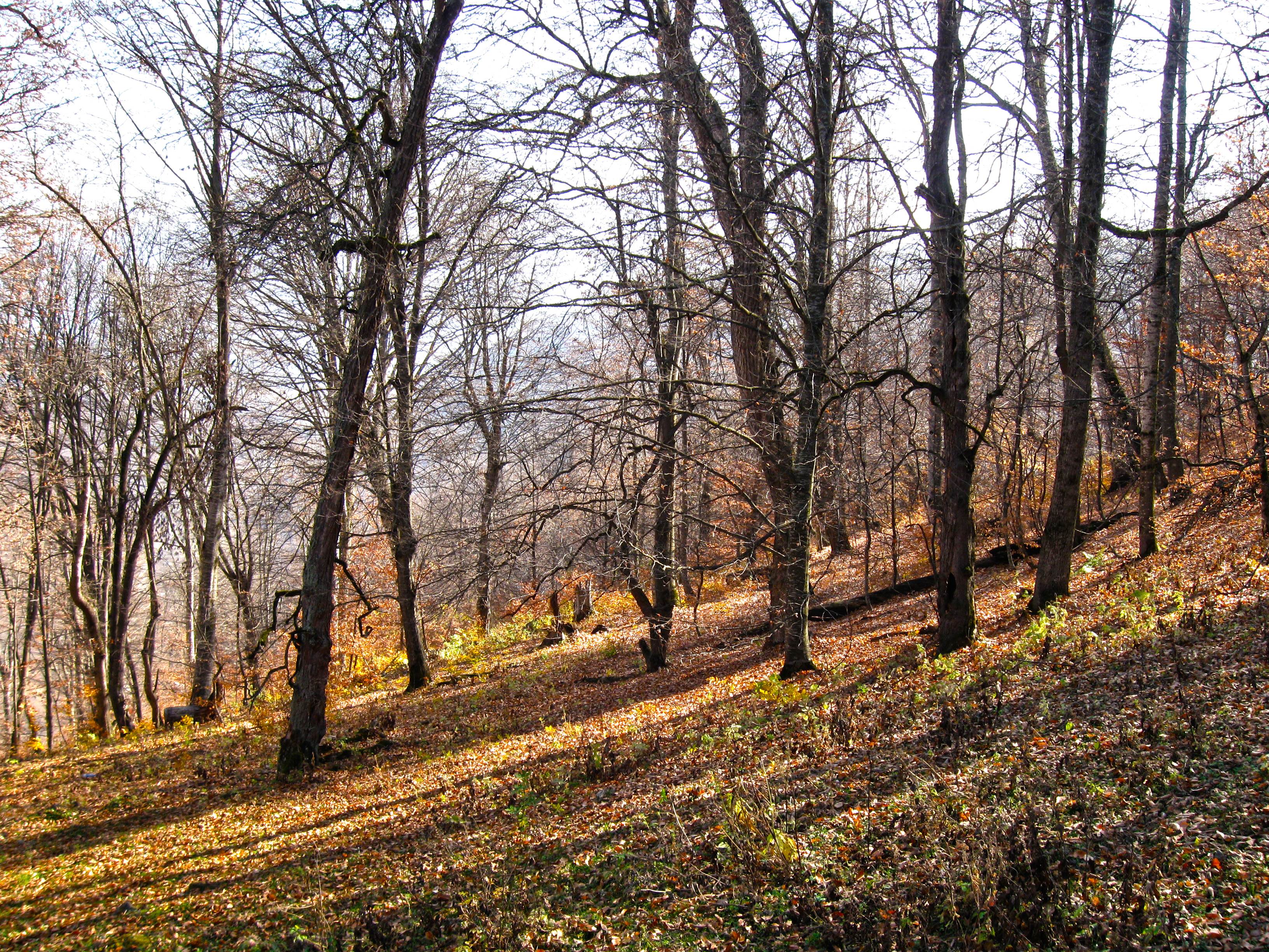 Dilijan National Park in Tavush province, Armenia